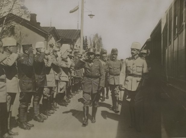 Rüdiger von der Goltz as Mannerheim's guest in the Mikkeli headquarters in the Finnish Civil War.